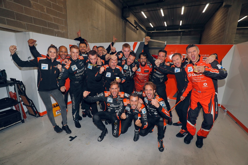 G-Drive win ELMS